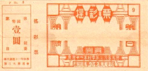 Ticket of Mukden Horse race (1944, 3rd autumn race)